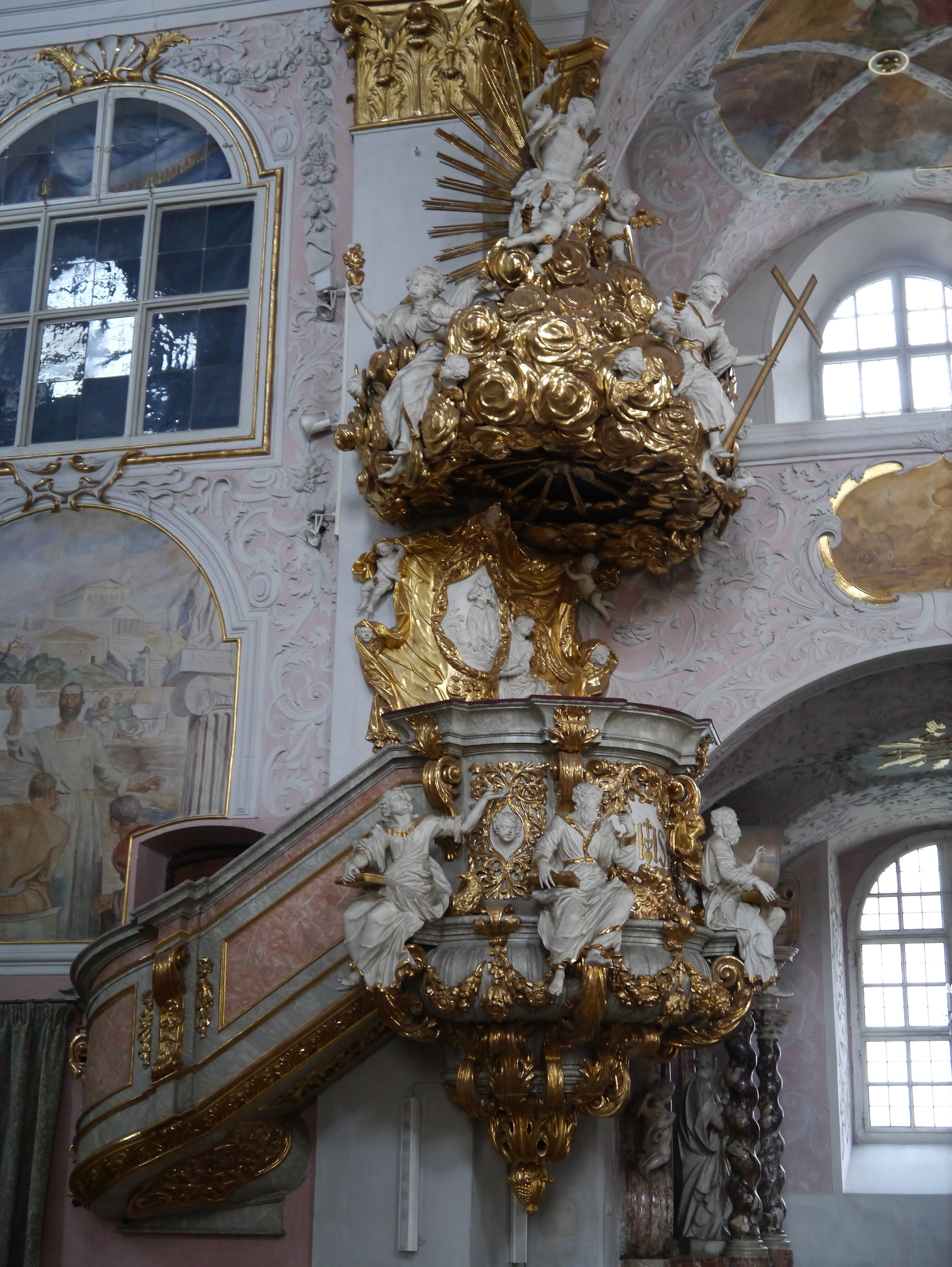 Pulpit of the Cathedral/Minster Sts. Peter & Paul, Klagenfurt, Carinthia